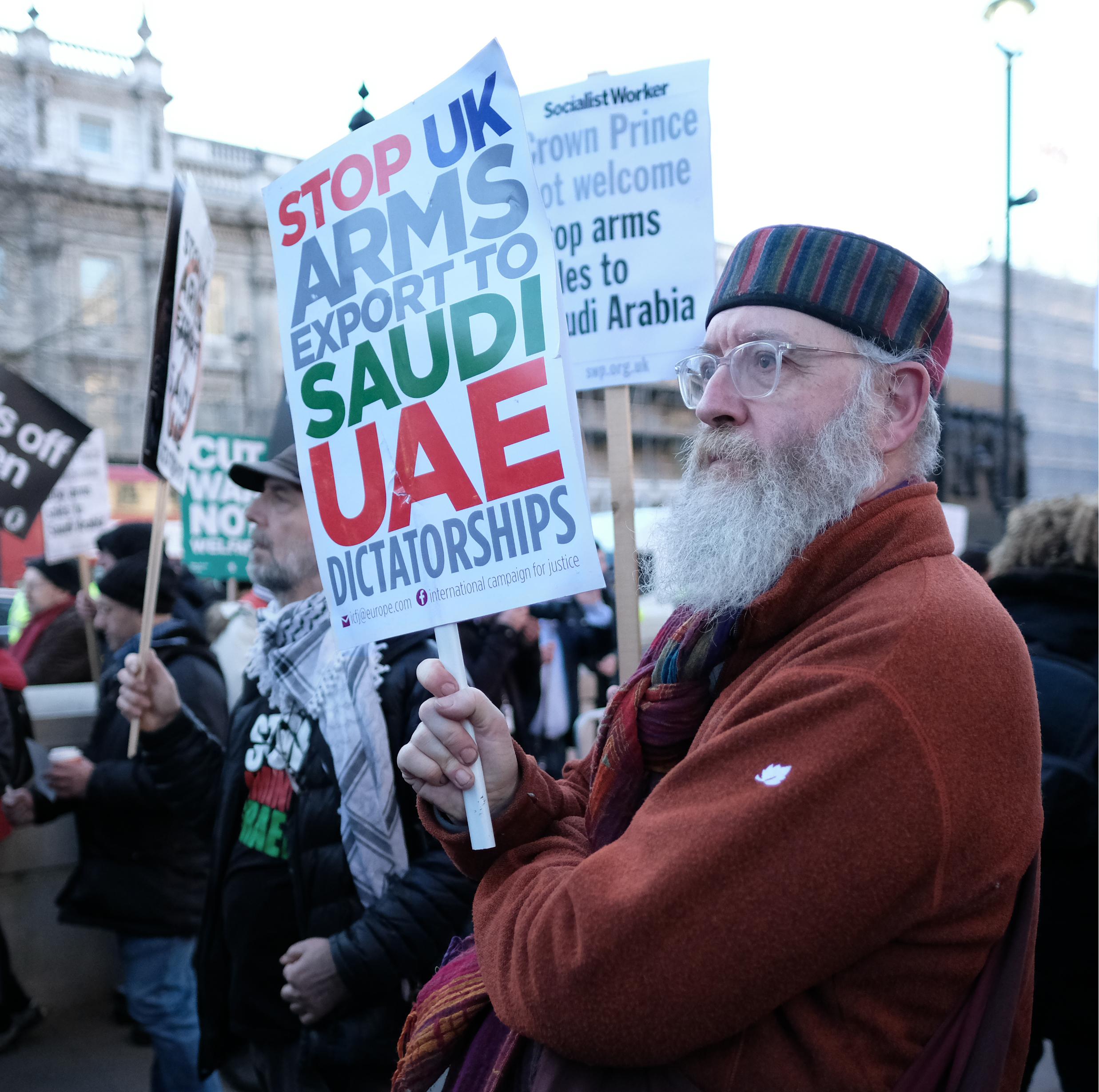 After over one thousand days of war in Yemen, the first large protest takes place in London of a few hundred people outside Downing Street.